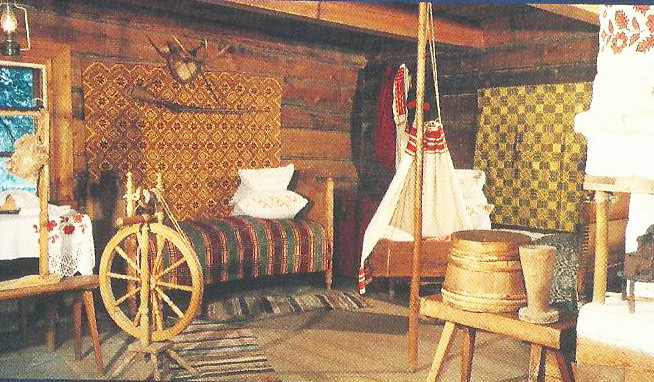 Living room in the memorial house in which the famous Belarusian poet Yanka Kupala was born Беларуская (тарашкевіца): Мэмарыяльны пакой у хаце ў Вязынцы, ў якой у 1882 годзе нарадзіўся народны паэт Беларусі Янка Купала